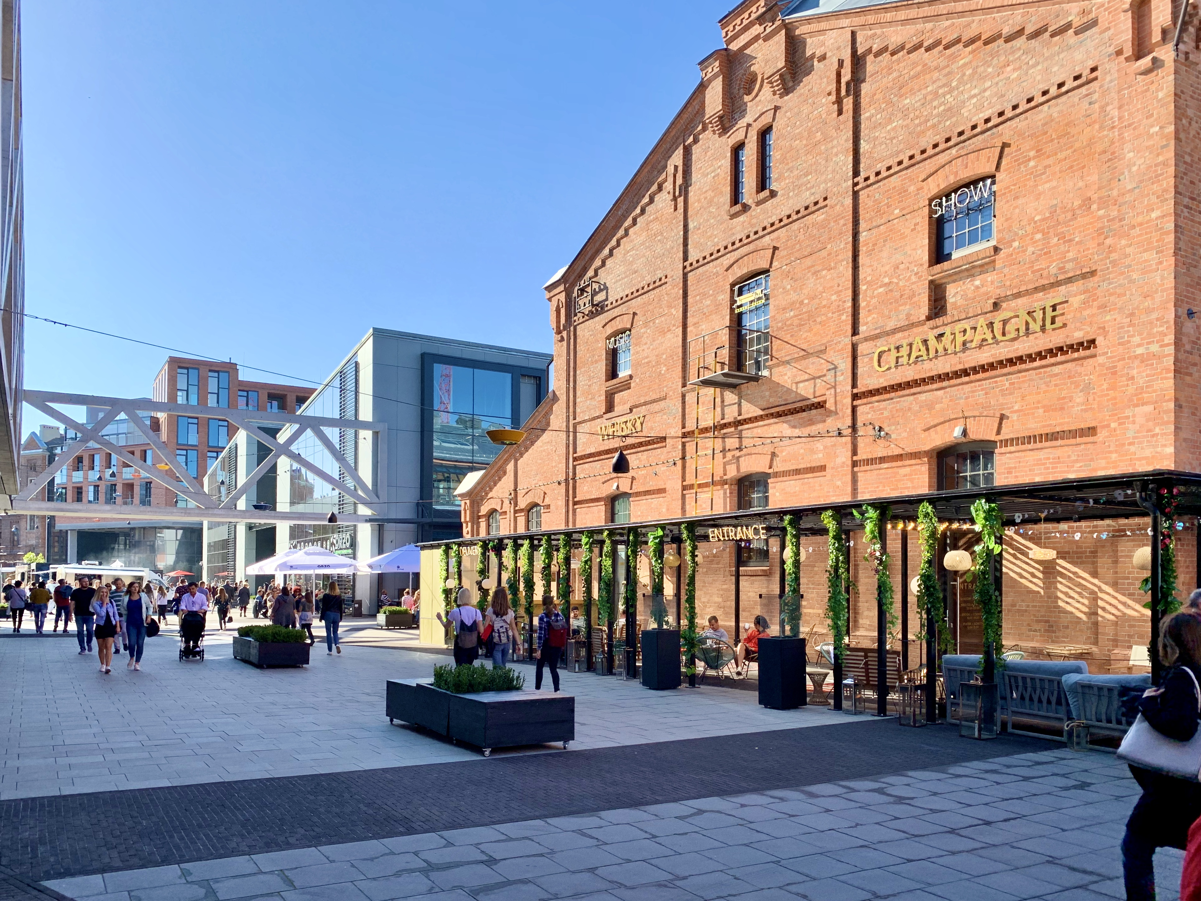 Koneser Warszawska Wytwórnia Wódek, Poland, 2019